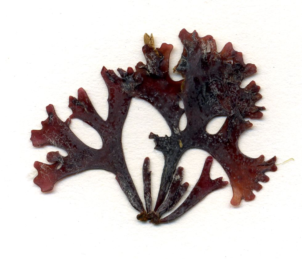 Chondrus crispus Stackh., herbarium sheet. Collected 1985-09-10, Heligoland (Germany)